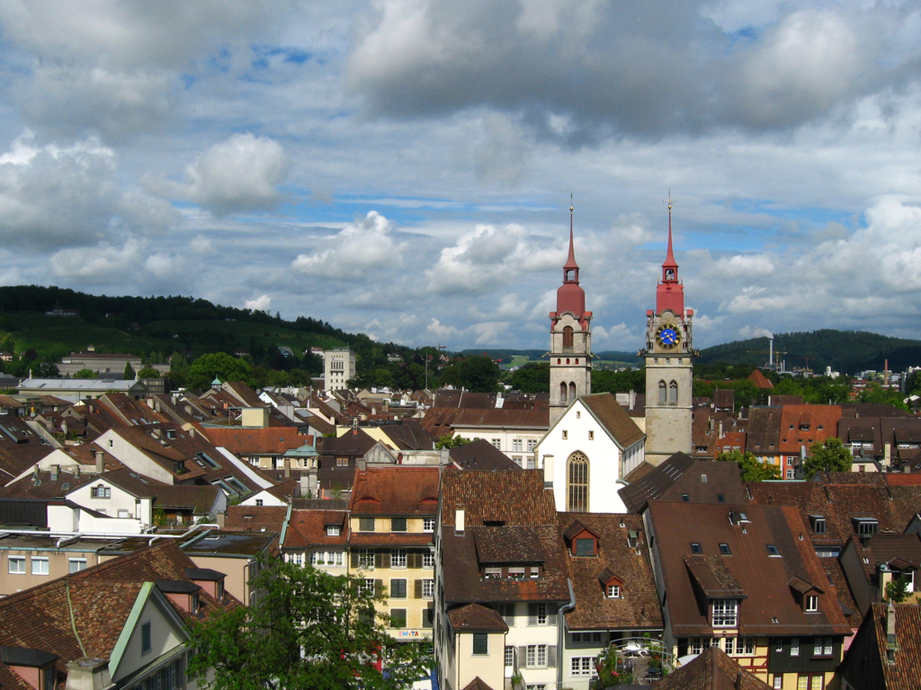 View of Winterthur.